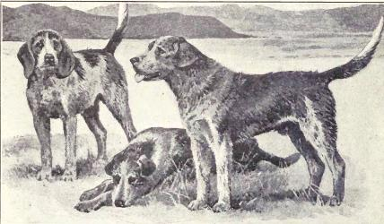 Welsh Hound from 1915